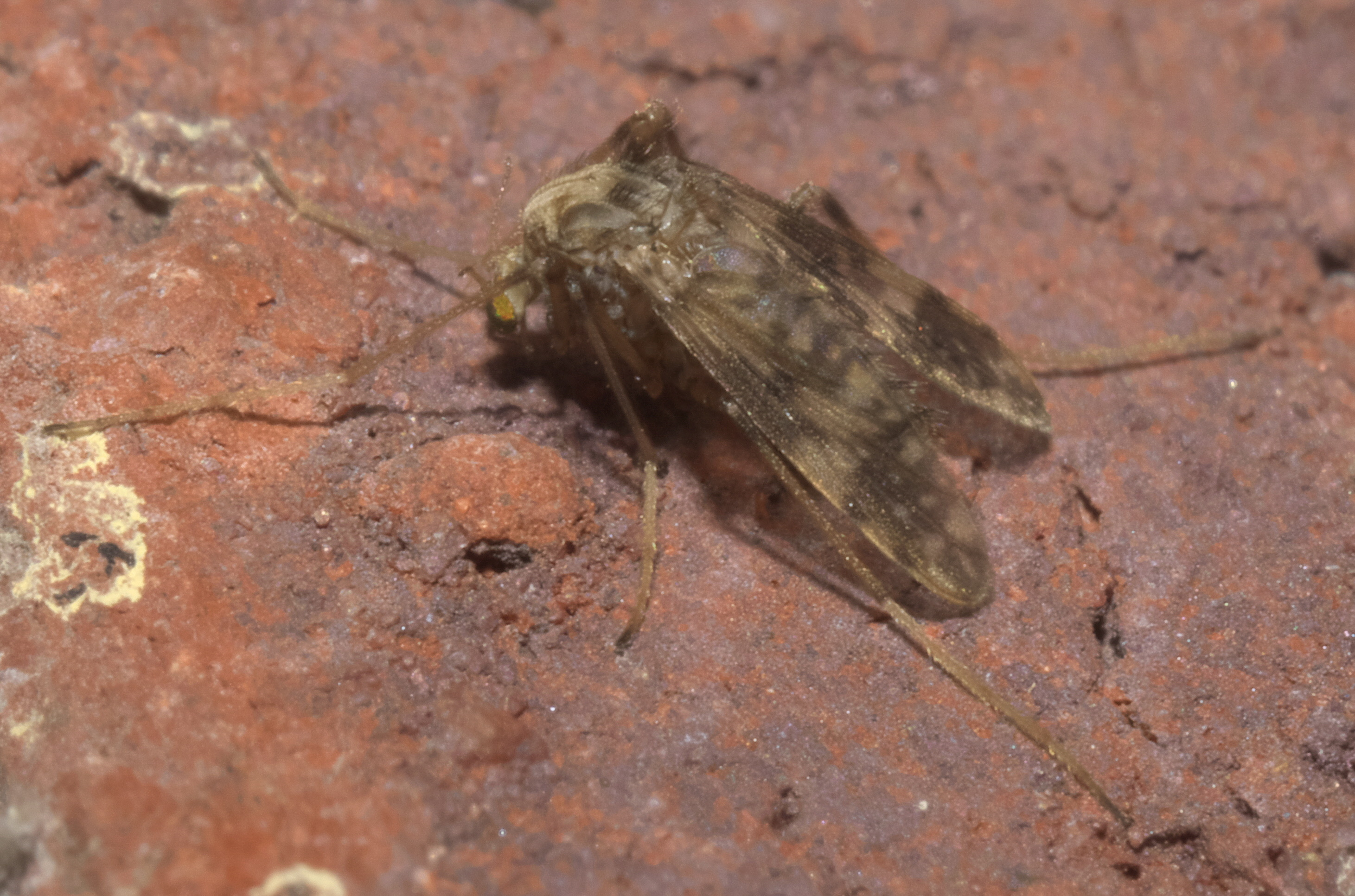 Psectrotanypus dyari, Family: Midges, ID Confidence: 88